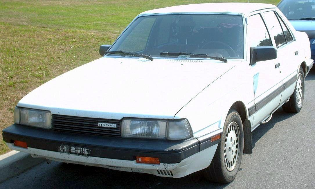 1983-1985 Mazda 626 photographed in Dollard Des Ormeaux, Quebec, Canada.